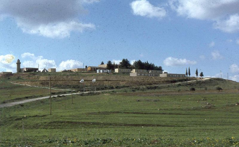 Jewish Settlement on the West Bank, 1978